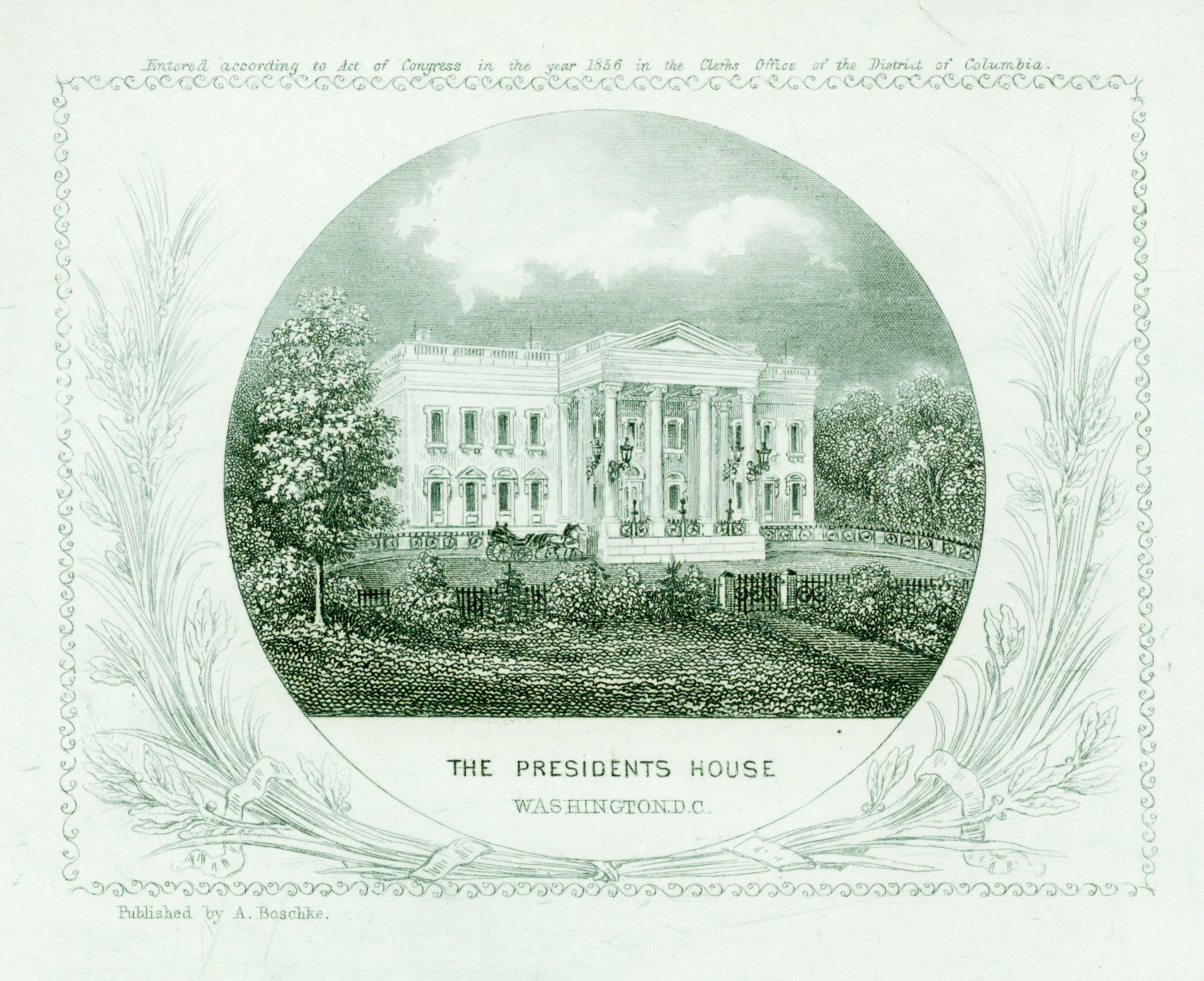 Engraving commissioned by the Clerk's Office, District of Columbia Commission.